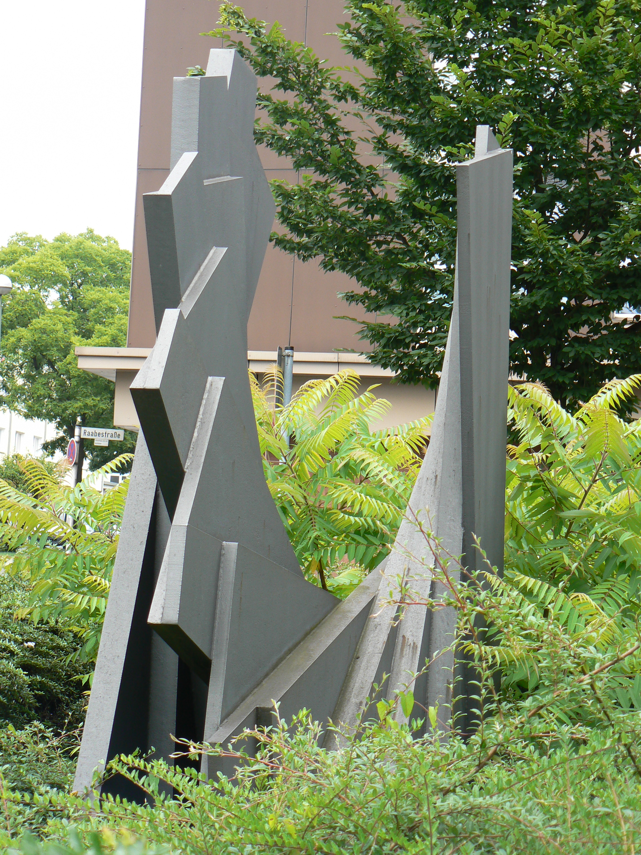 sculpture Untitled 1988 by Eberhard Fiebig in Gelsenkirchen/Germany